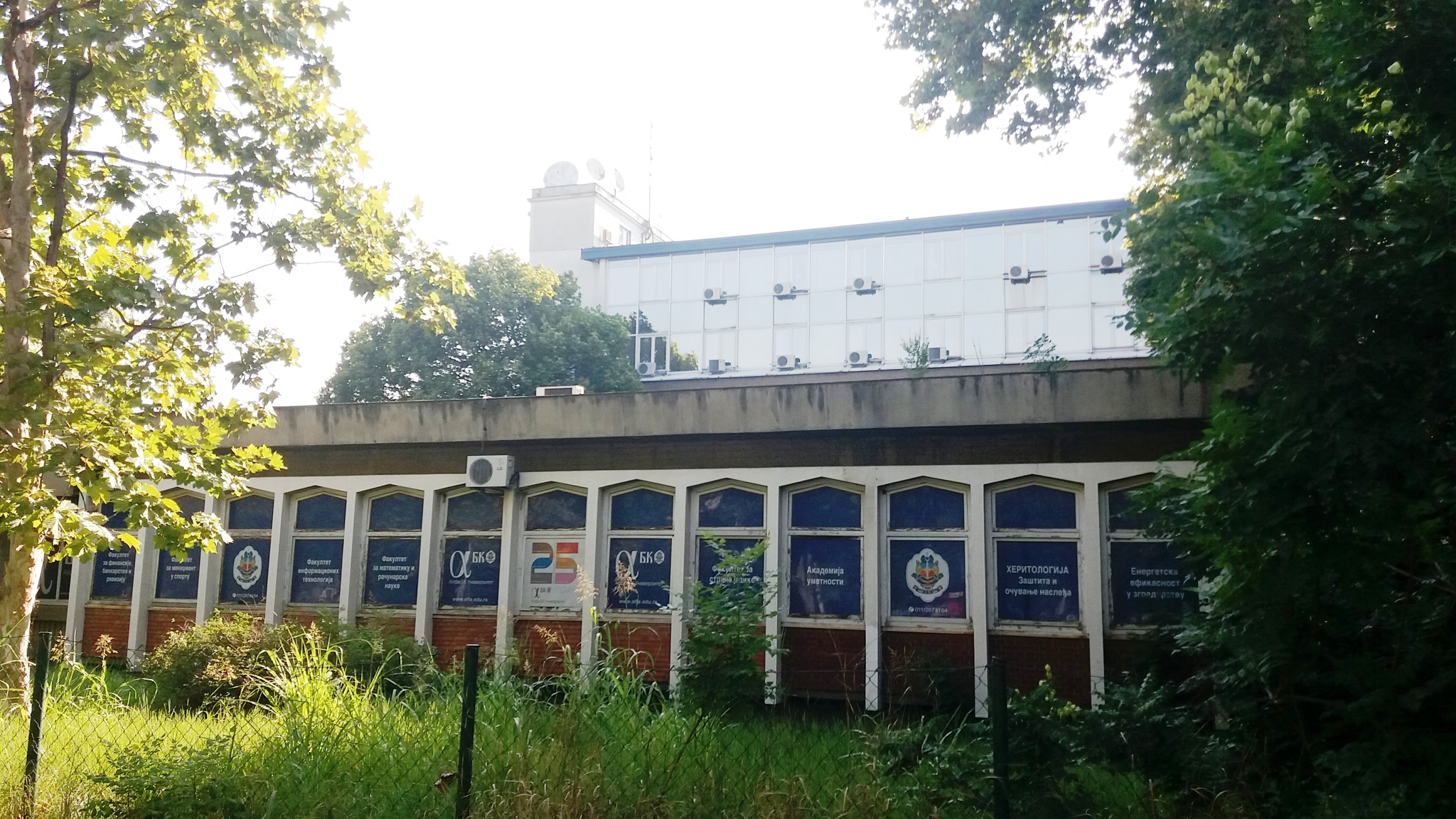 Alpha BK University, Block 11b, New Belgrade